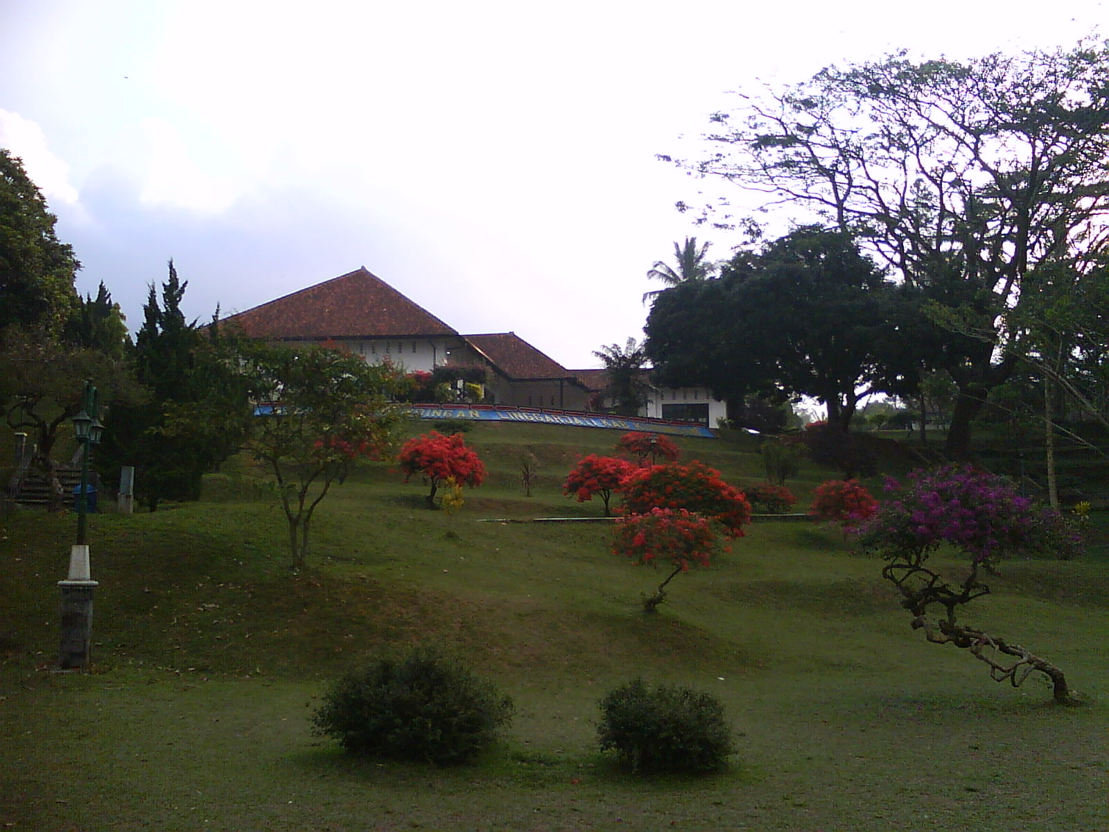 The house building is where the Linggadjati Agreement took place. Located in Cilimus, Kuningan, West Java province, Indonesia.